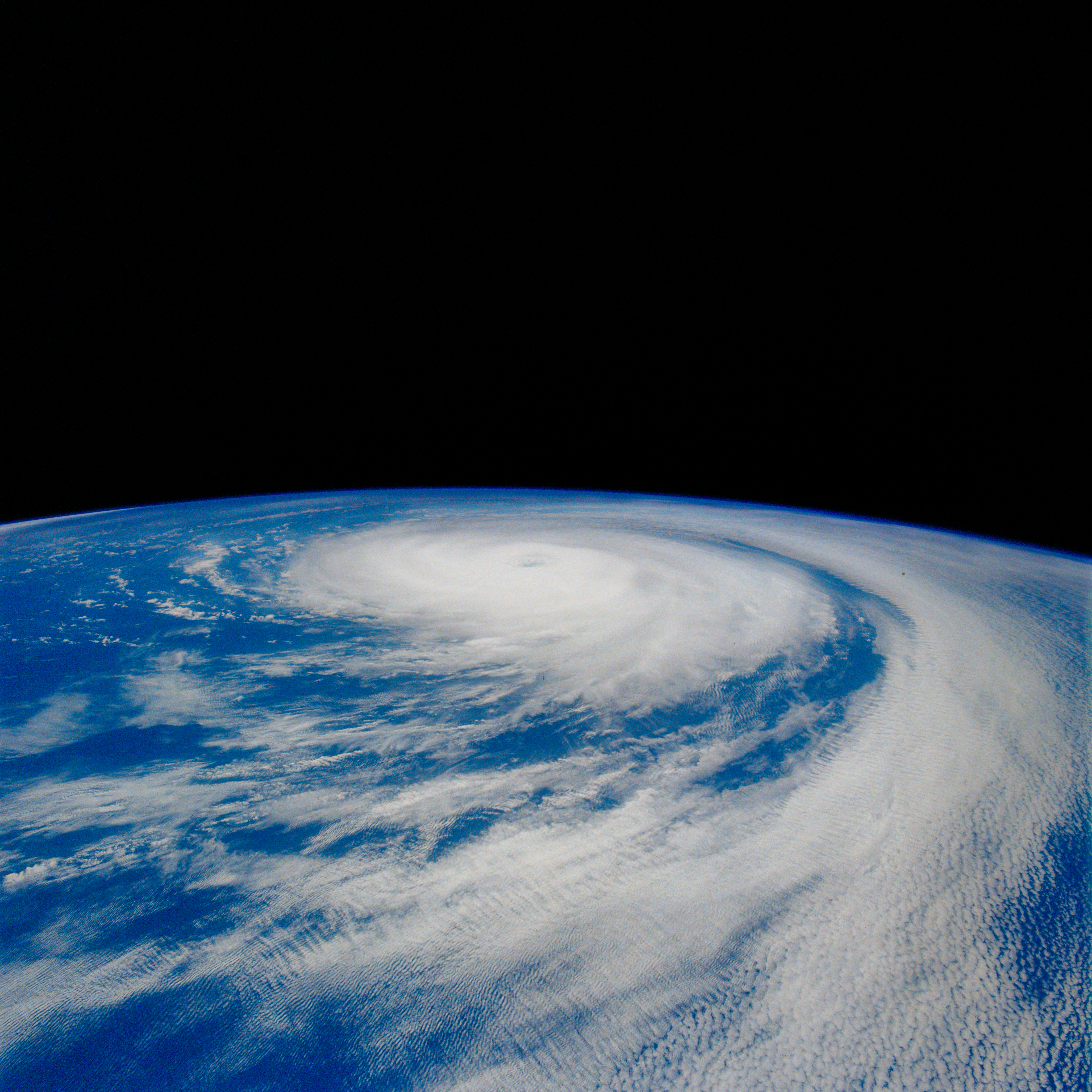 Oblique view of Hurricane Fefa in the Pacific Ocean on August 11, 1991 from STS-043